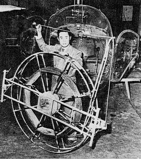 Yoshiro Nakamatsu in 1950s